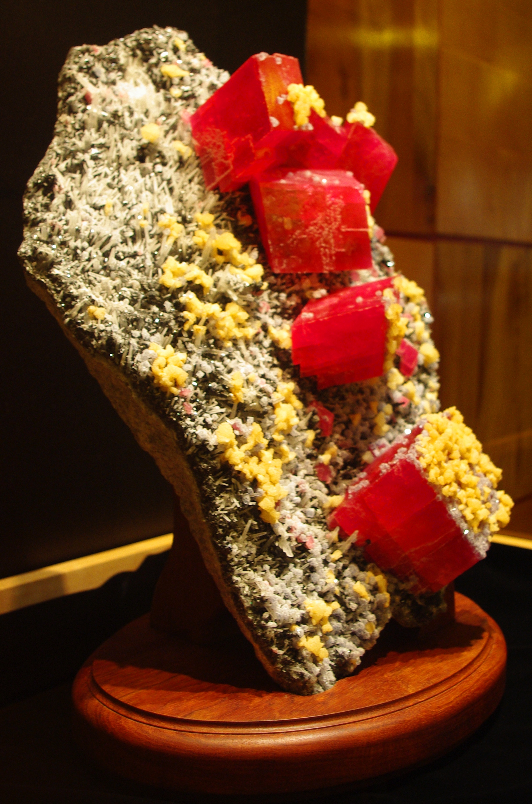 In the collections of the Rice Northwest Museum of Rocks and Minerals in Hillsboro, Oregon, USA. Side view of the Alma Rose, a Rhodochrosite, from the Sweet Home Mine in Alma, Colorado, USA. Weighs 70 pounds.